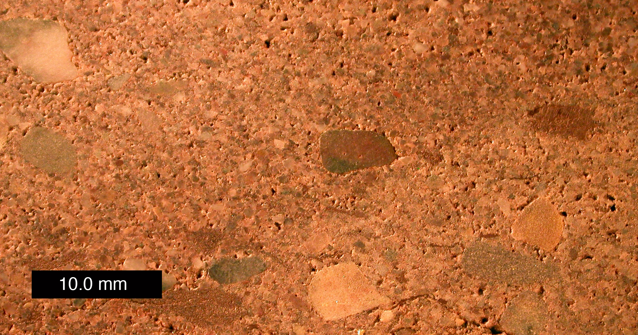 Cross-section through a sample of the Old Red Sandstone showing quartz and chert pebbles; central England.